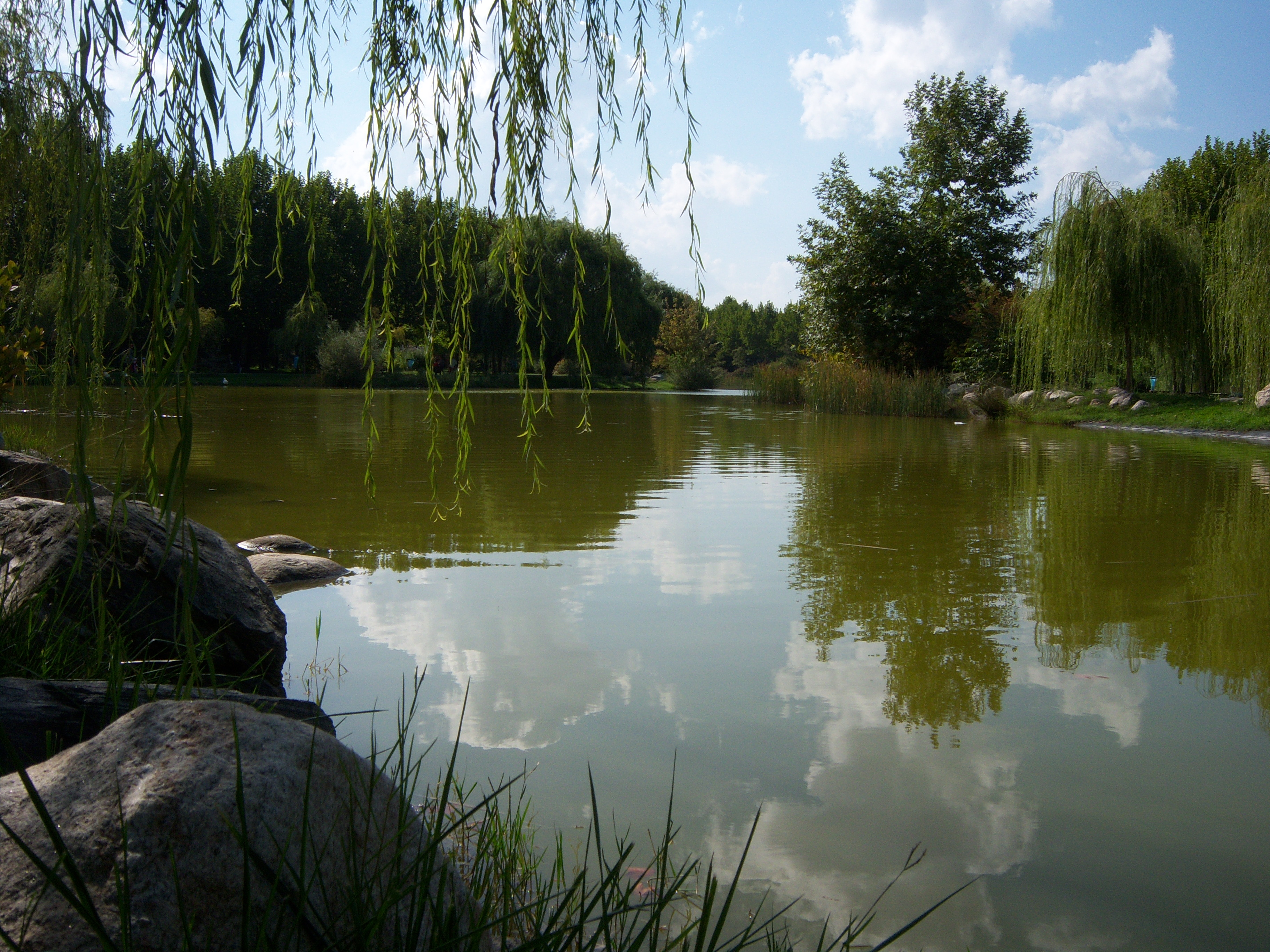 Bursa Botanical Gardens and Park, Bursa, Turkey.